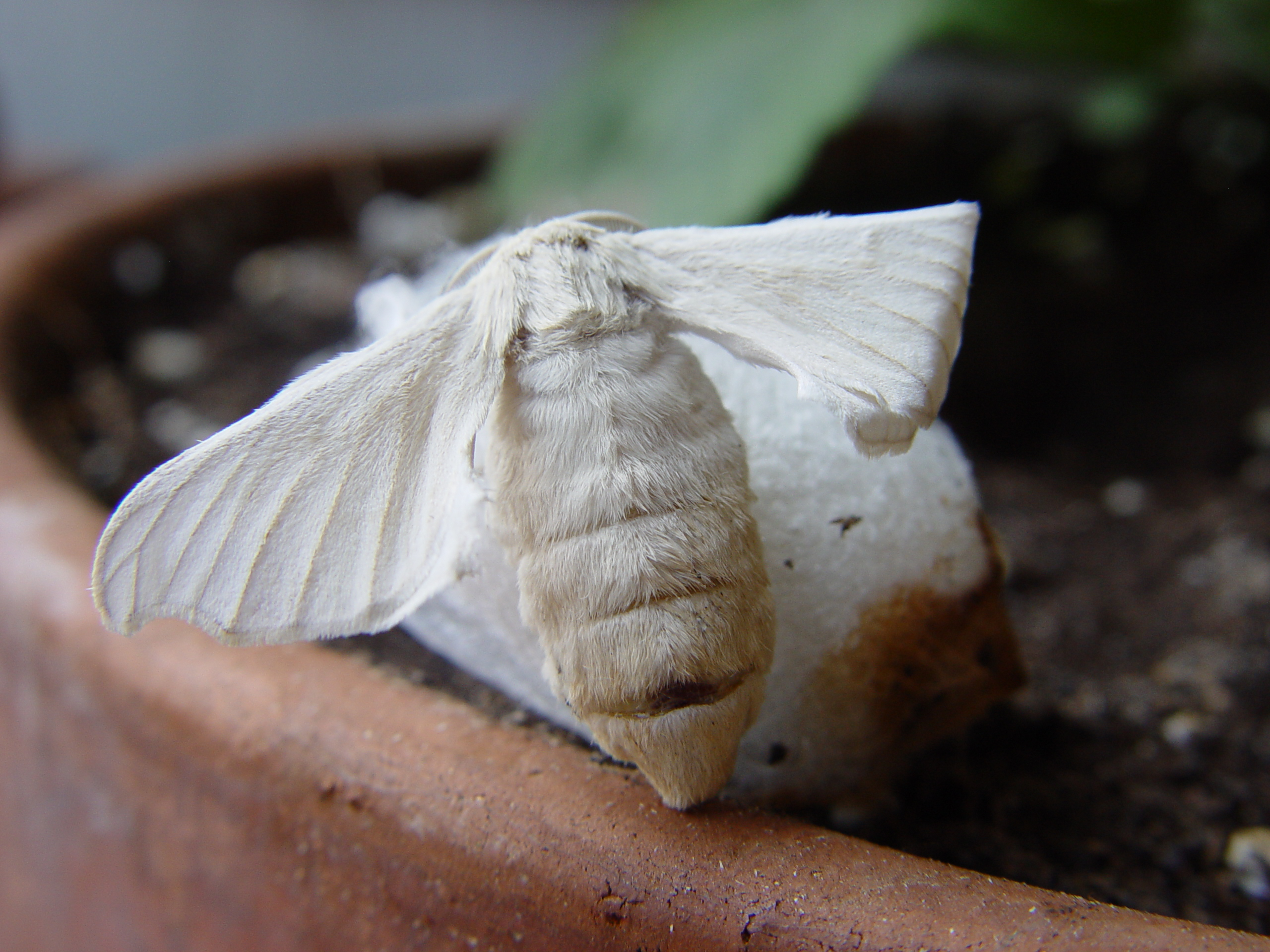 Bombyx mori on his cocoon